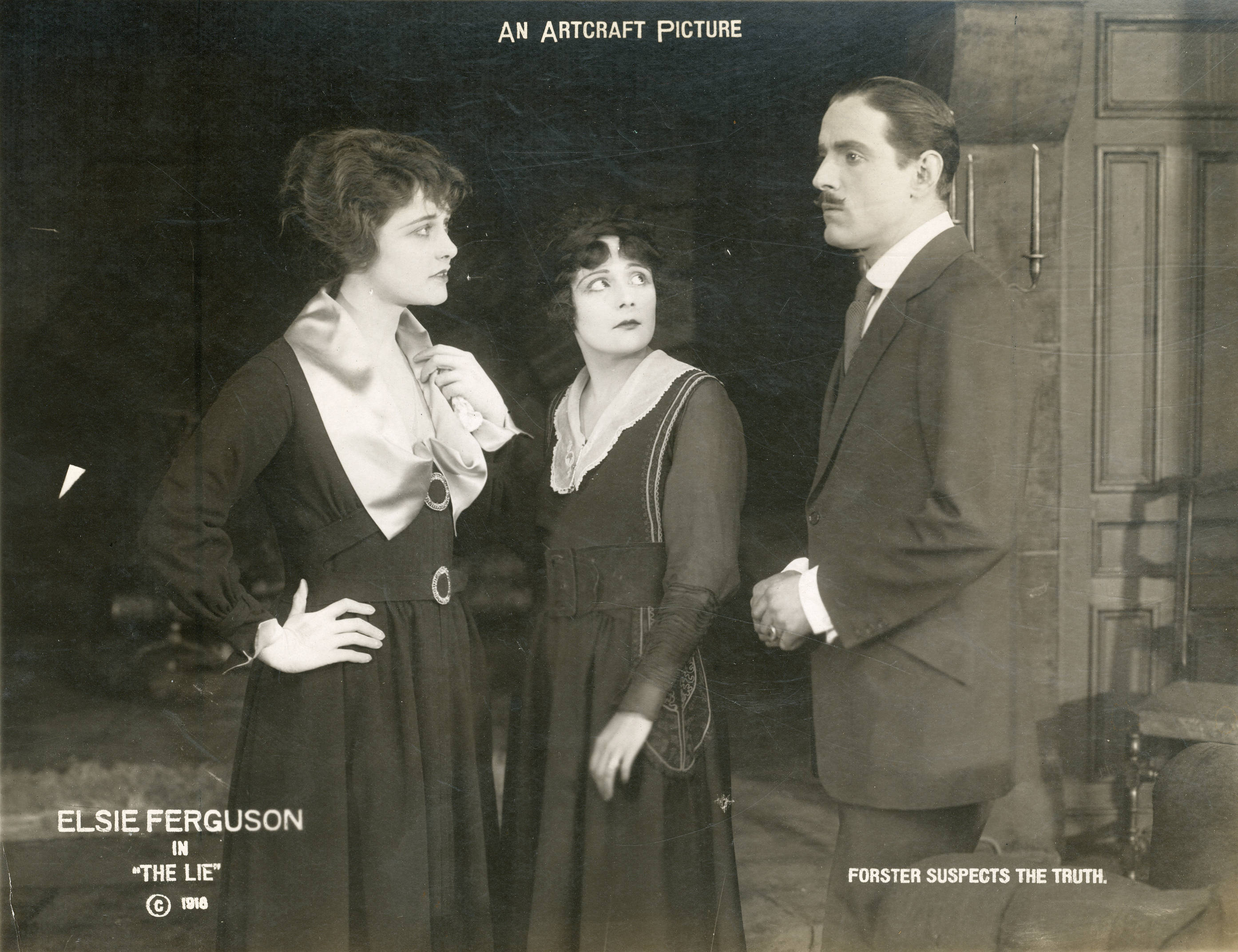 A scene from the American drama film The Lie (1918), which played at the Coliseum Theater, Seattle. Date stamped May 6, 1918. Includes Elsie Ferguson, Betty Howe, and David Powell [correction from Sayre collection record]. Subjects: motion pictures, actresses, actors